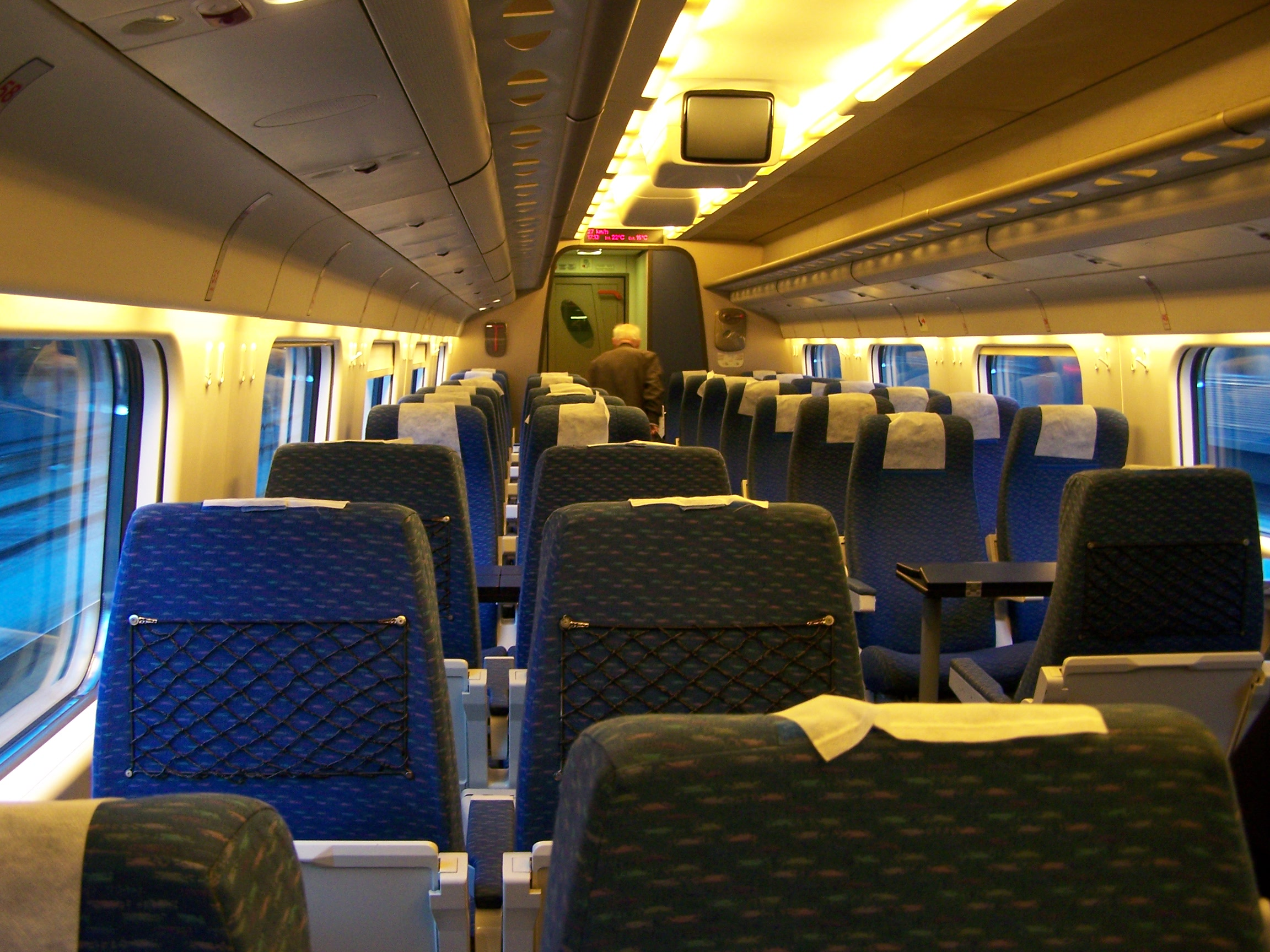 Interior of the portuguese high-speed train Alfa Pendular